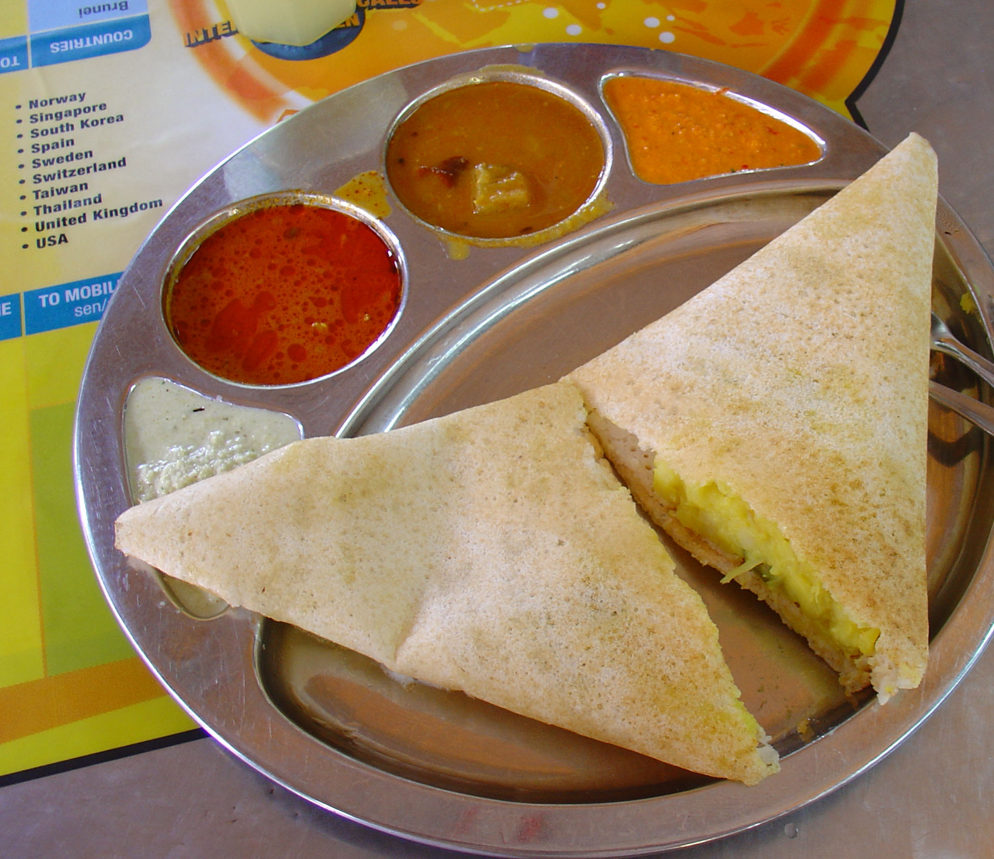 Masala dosa as served in Kuala Lumpur, Malaysia.